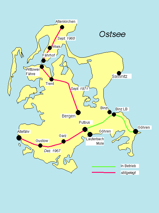 map of the network of the narrow-gauge railway "Rasenden Rolands" on the island of Rügen, Germany. The red lines show the date of closure of track section.